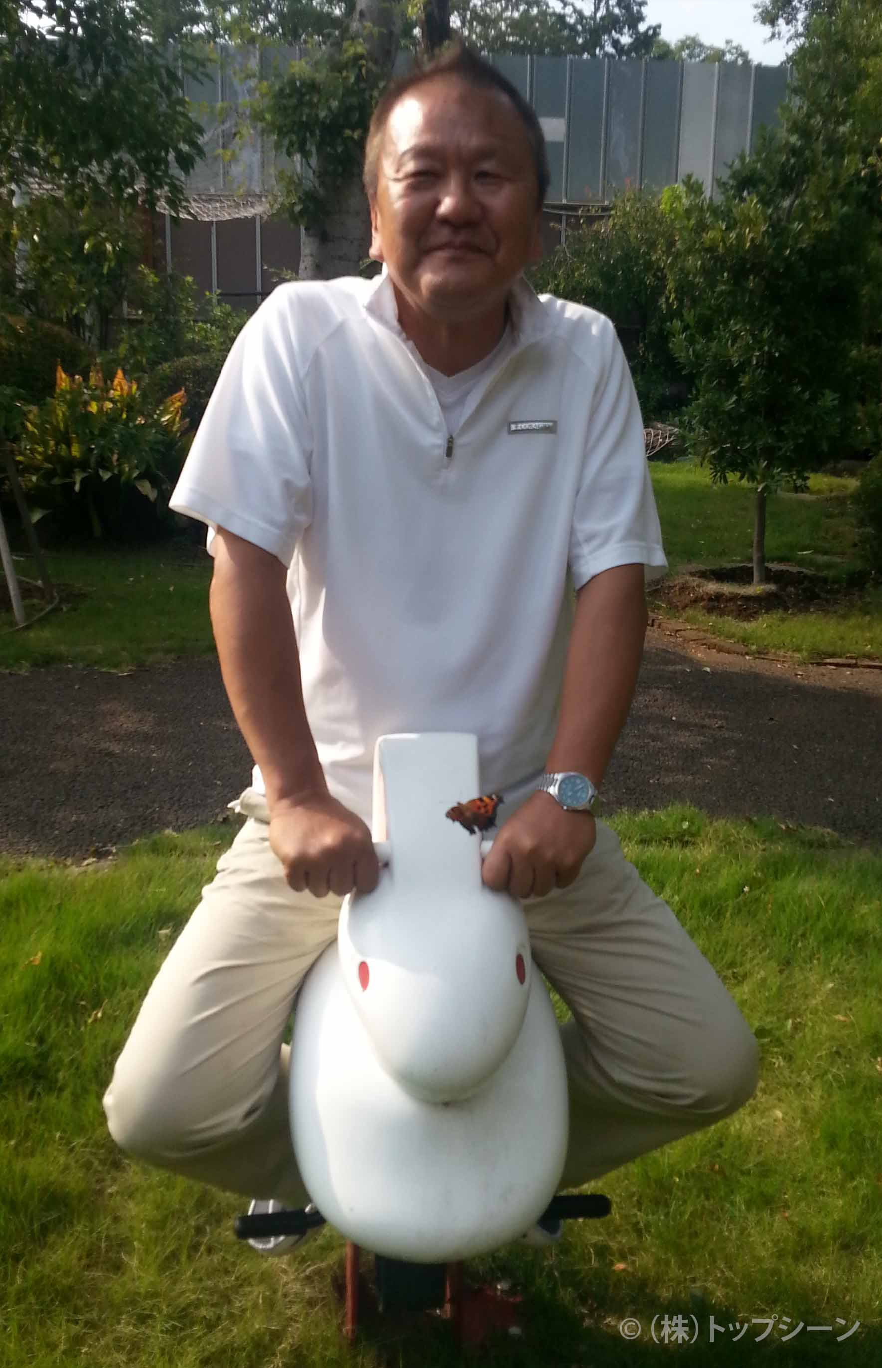 Image created with the consent of Masaaki Arai. when reusing this image.